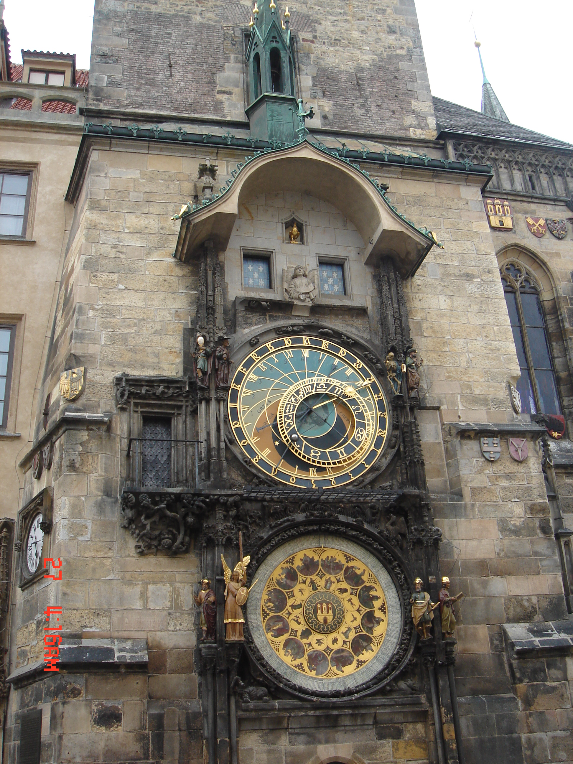 Prague Astronomical Clock or Prague Orloj